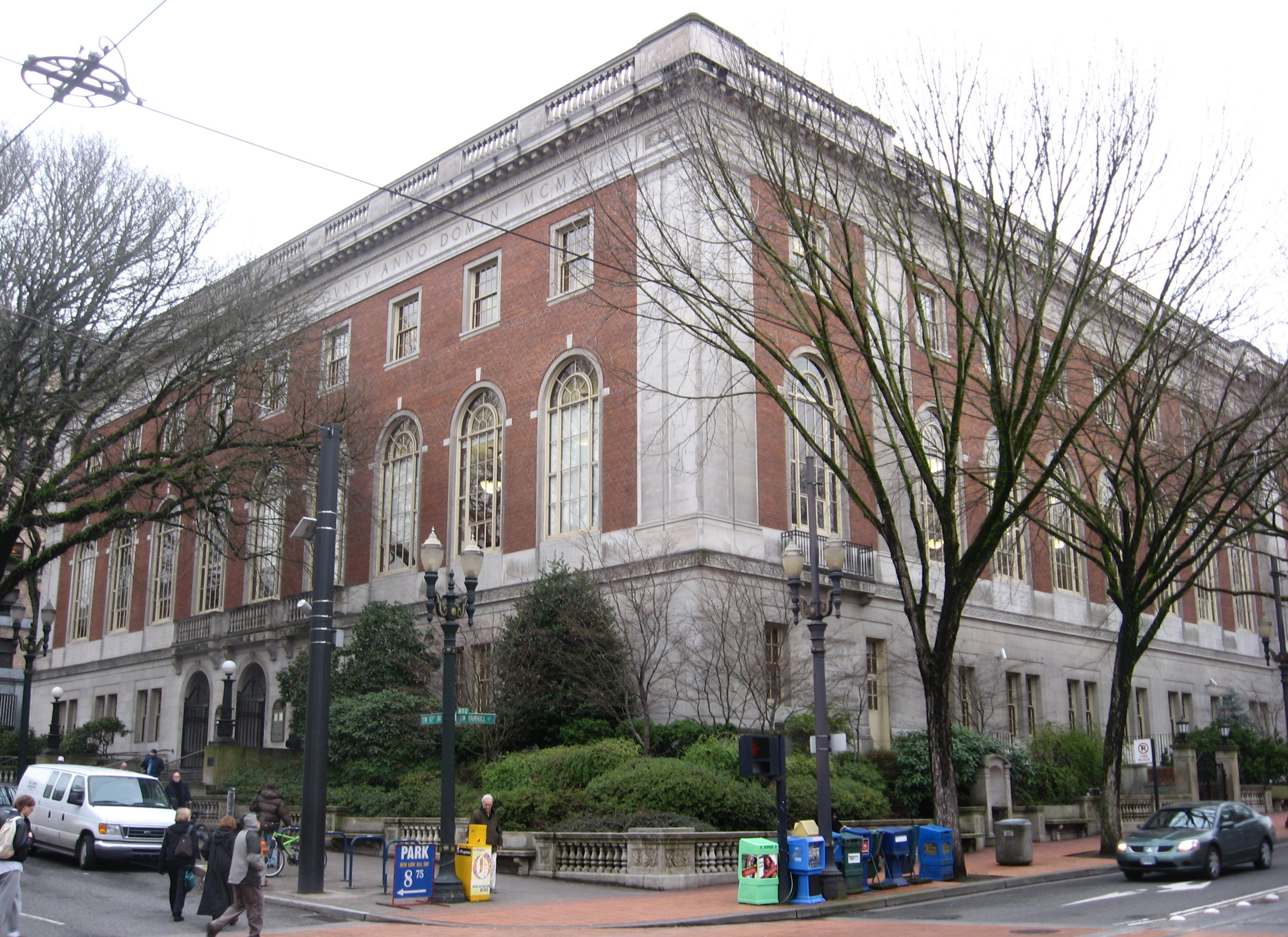 The Central Library (Portland, Oregon) Has a fantastic marble interior.